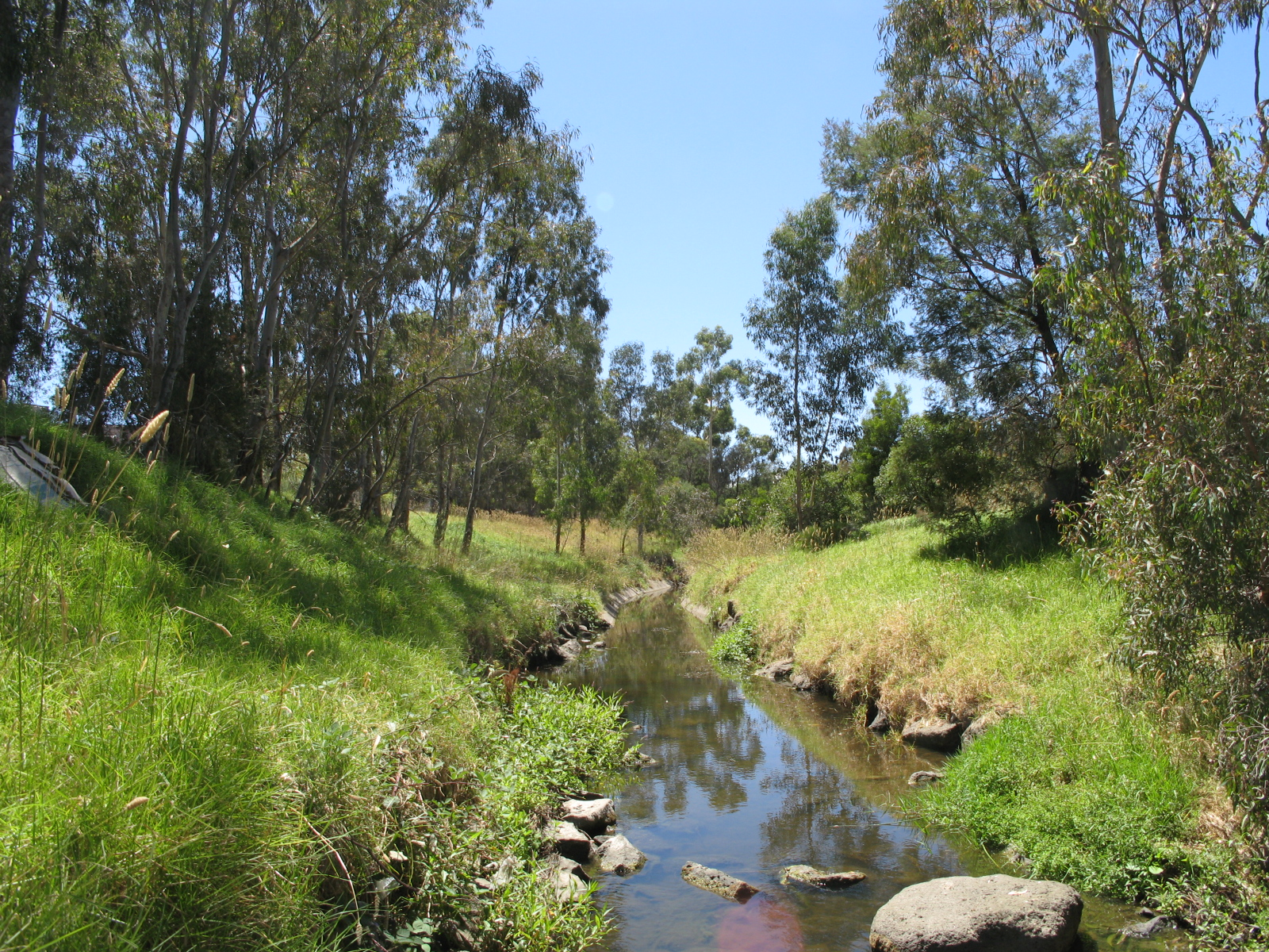 Darebin Creek, near Bell Street. Photo taken by myself in January 2009.